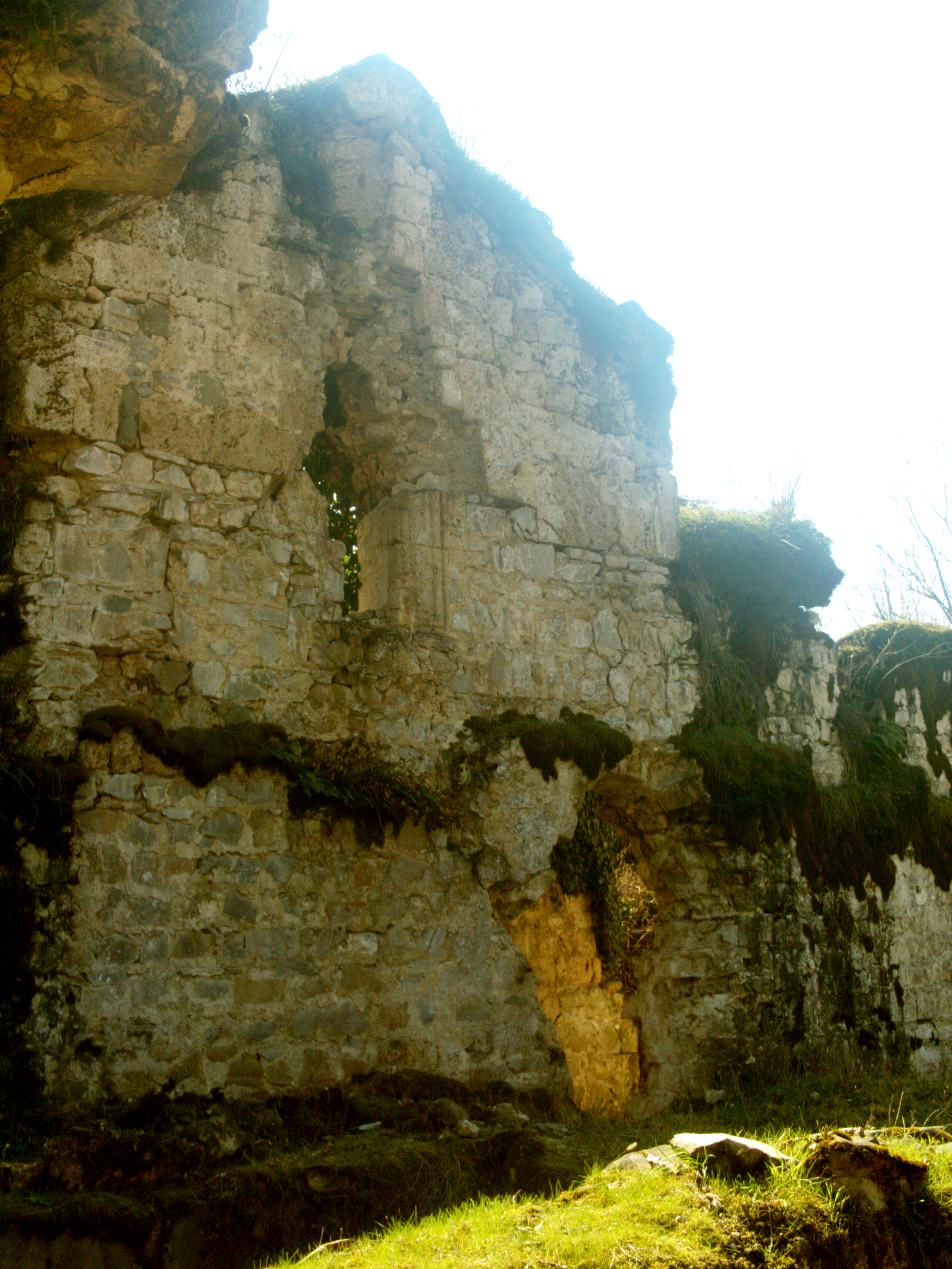 Seven church monastery